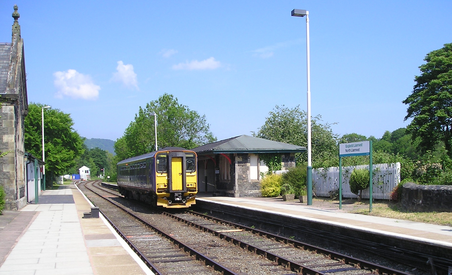 photo taken by me Noel Walley